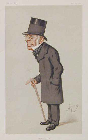 Caricature of Sir George Biddell Airy. Caption reads "Astronomy"